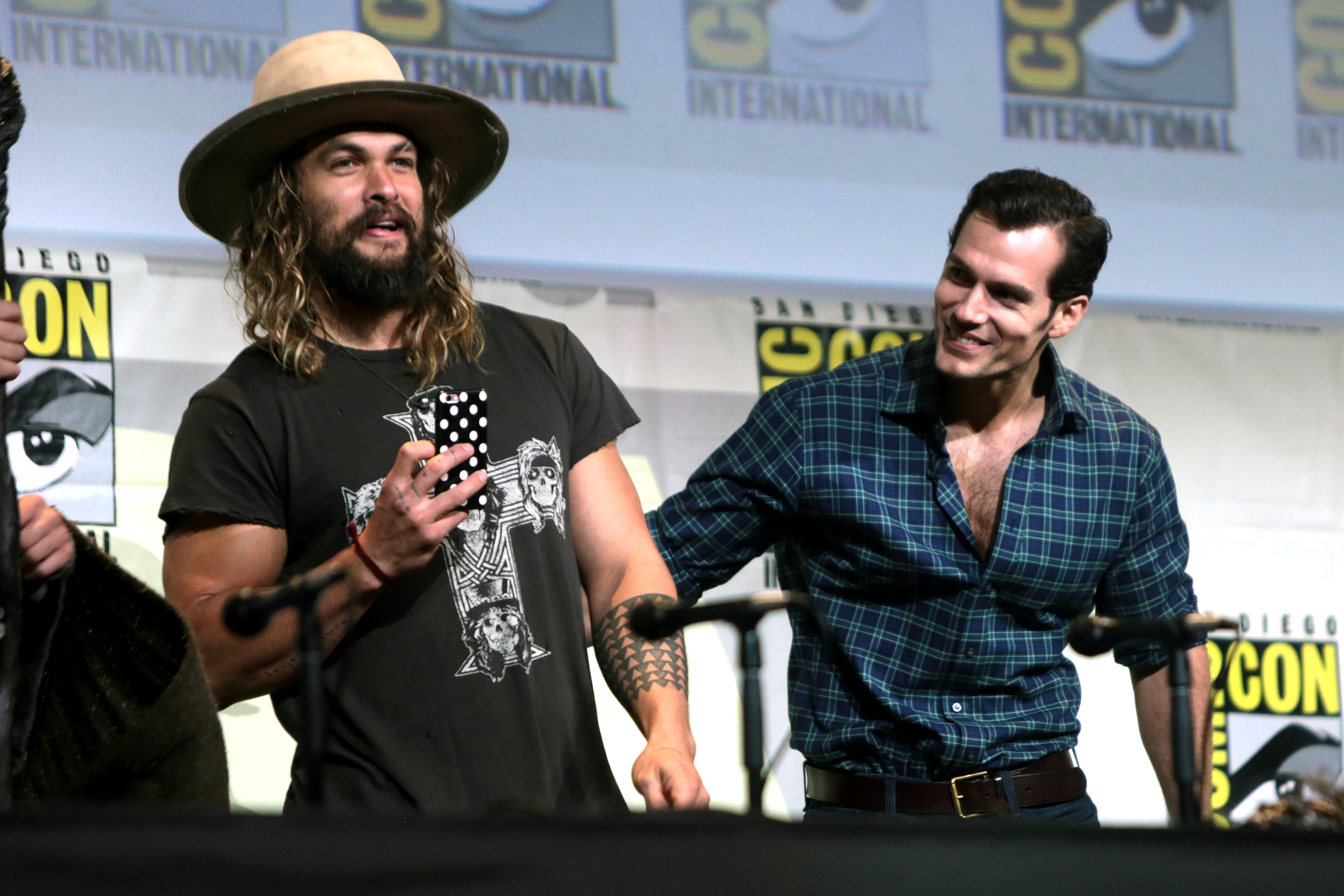 Jason Momoa and Henry Cavill speaking at the 2016 San Diego Comic Con International, for "Justice League", at the San Diego Convention Center in San Diego, California.